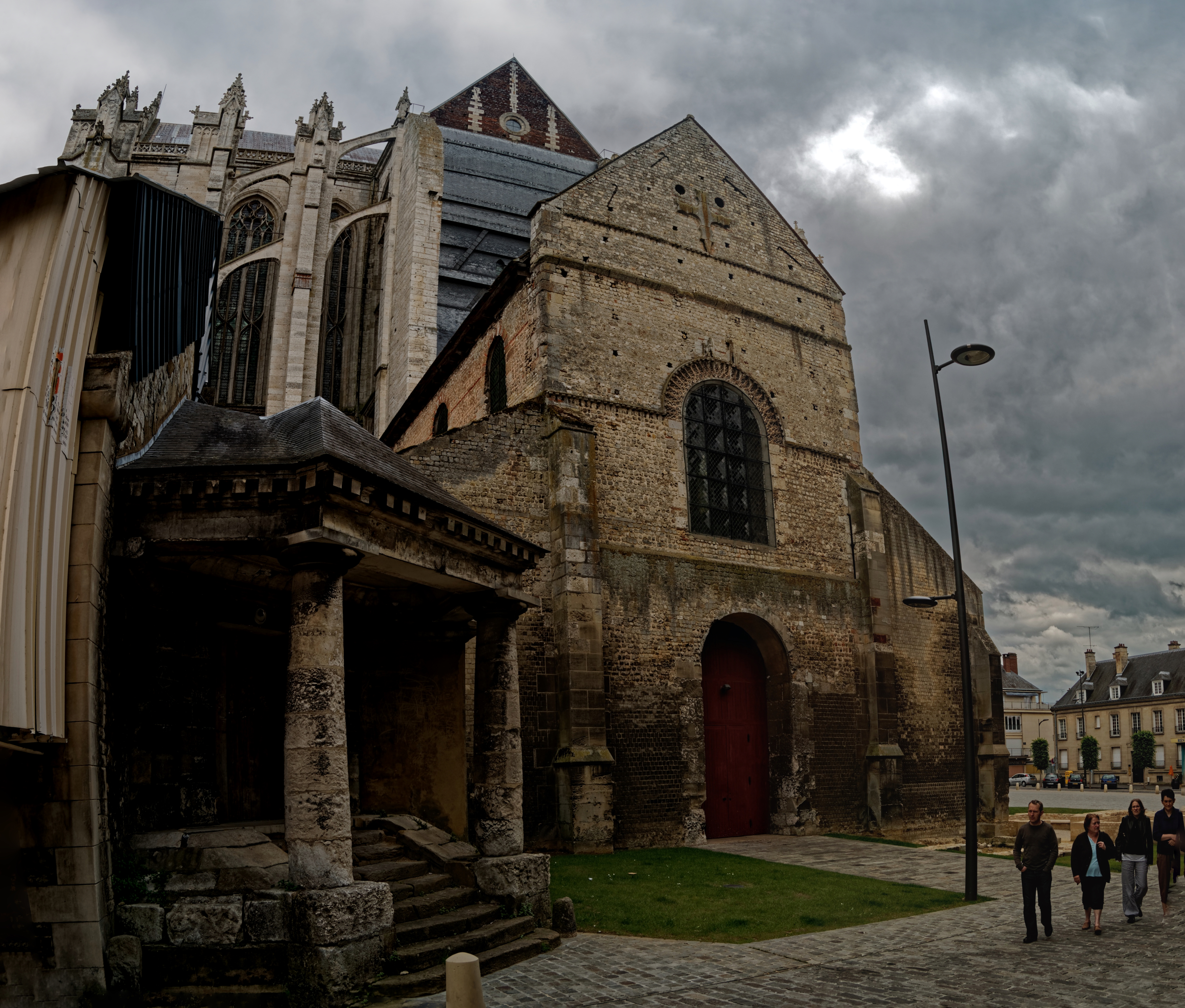 Beauvais - Rue du Musée - ICE Photocompilation Viewing from ESE to South on L'Église paroissiale Notre-Dame-de-la-Basse-Œuvre de Beauvais